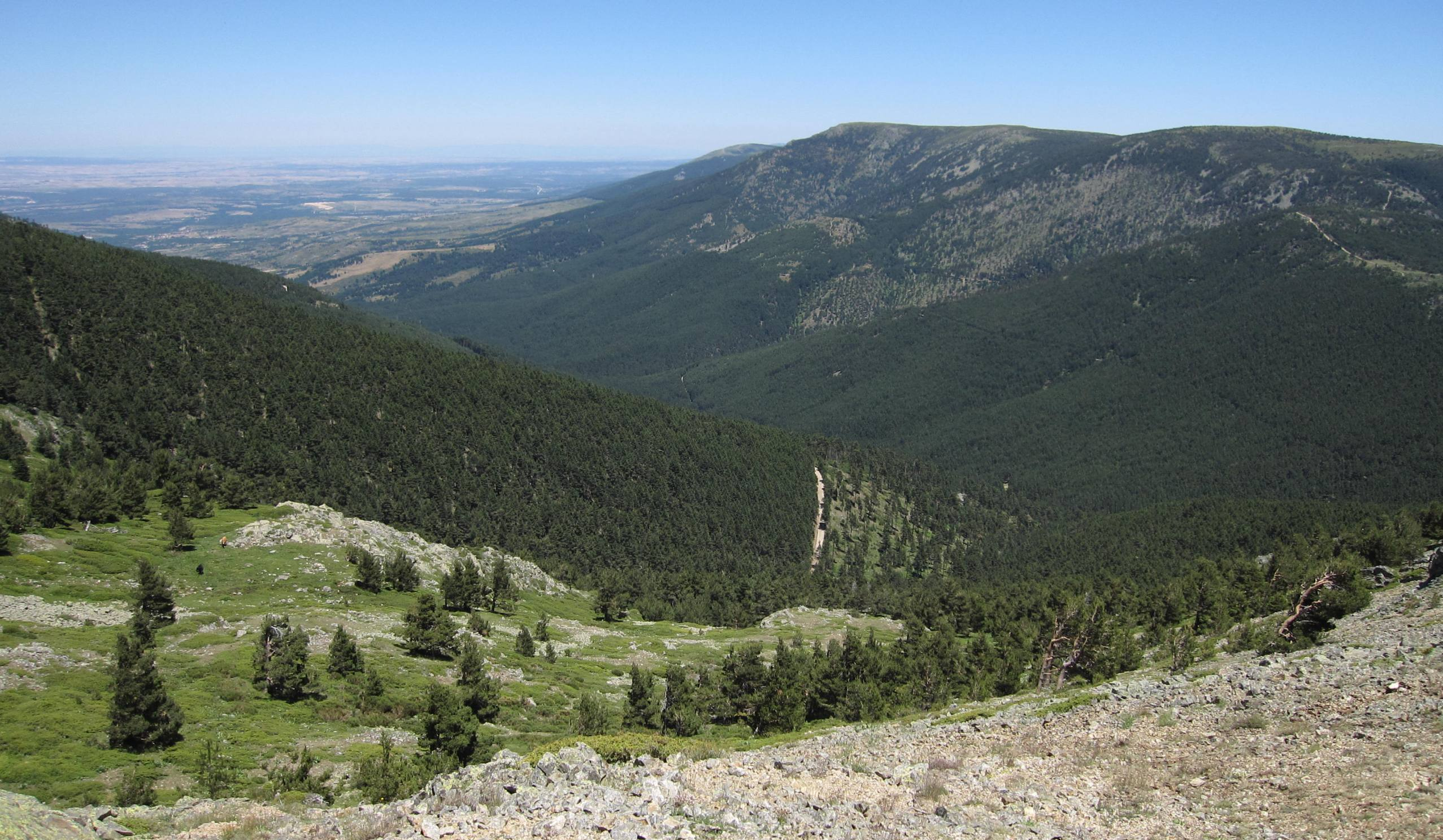 Navafría valley (Guadarrama mountain range, central Spain).